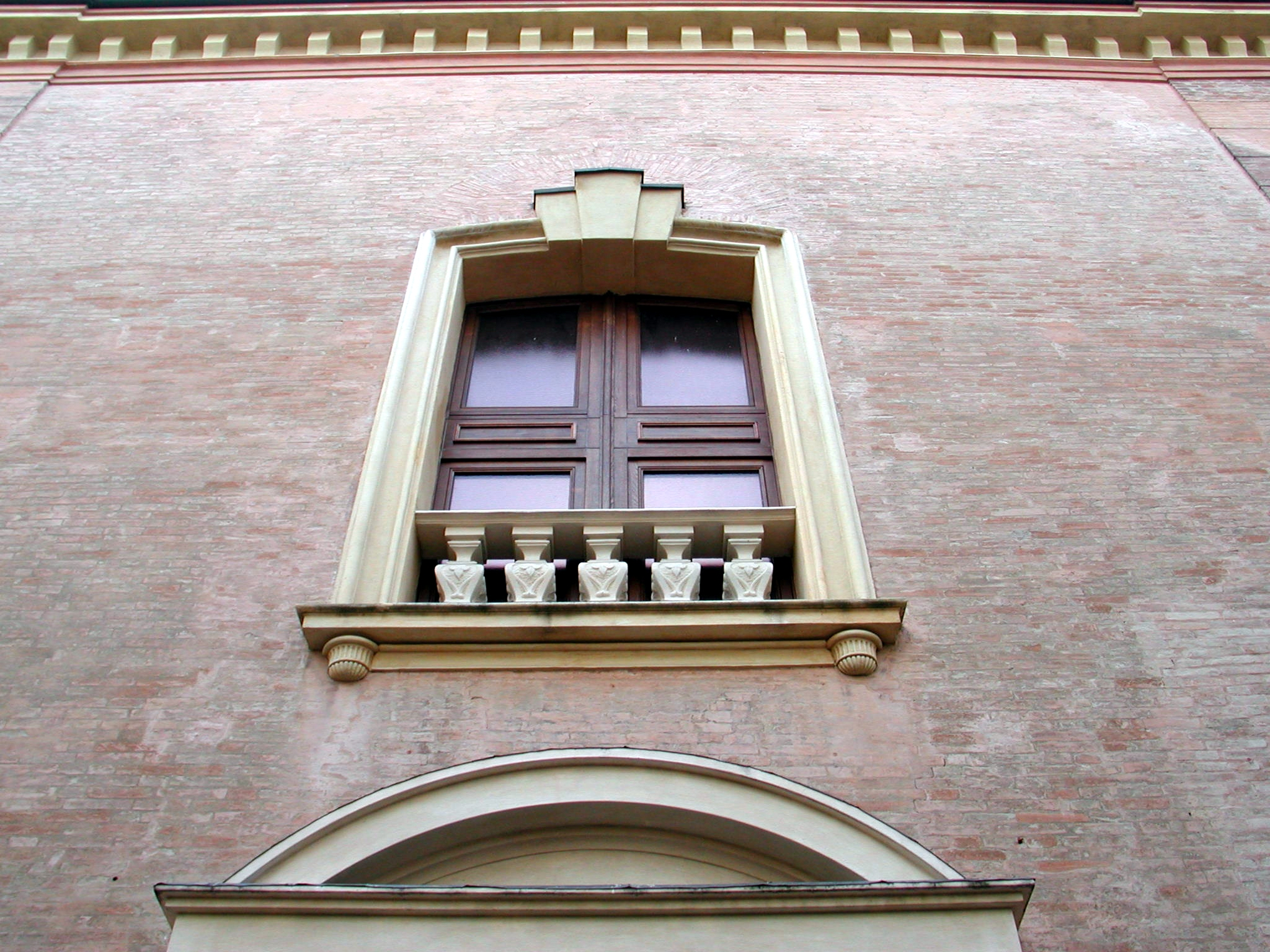 Window of the Sinagoga di Reggio Emilia, Italy